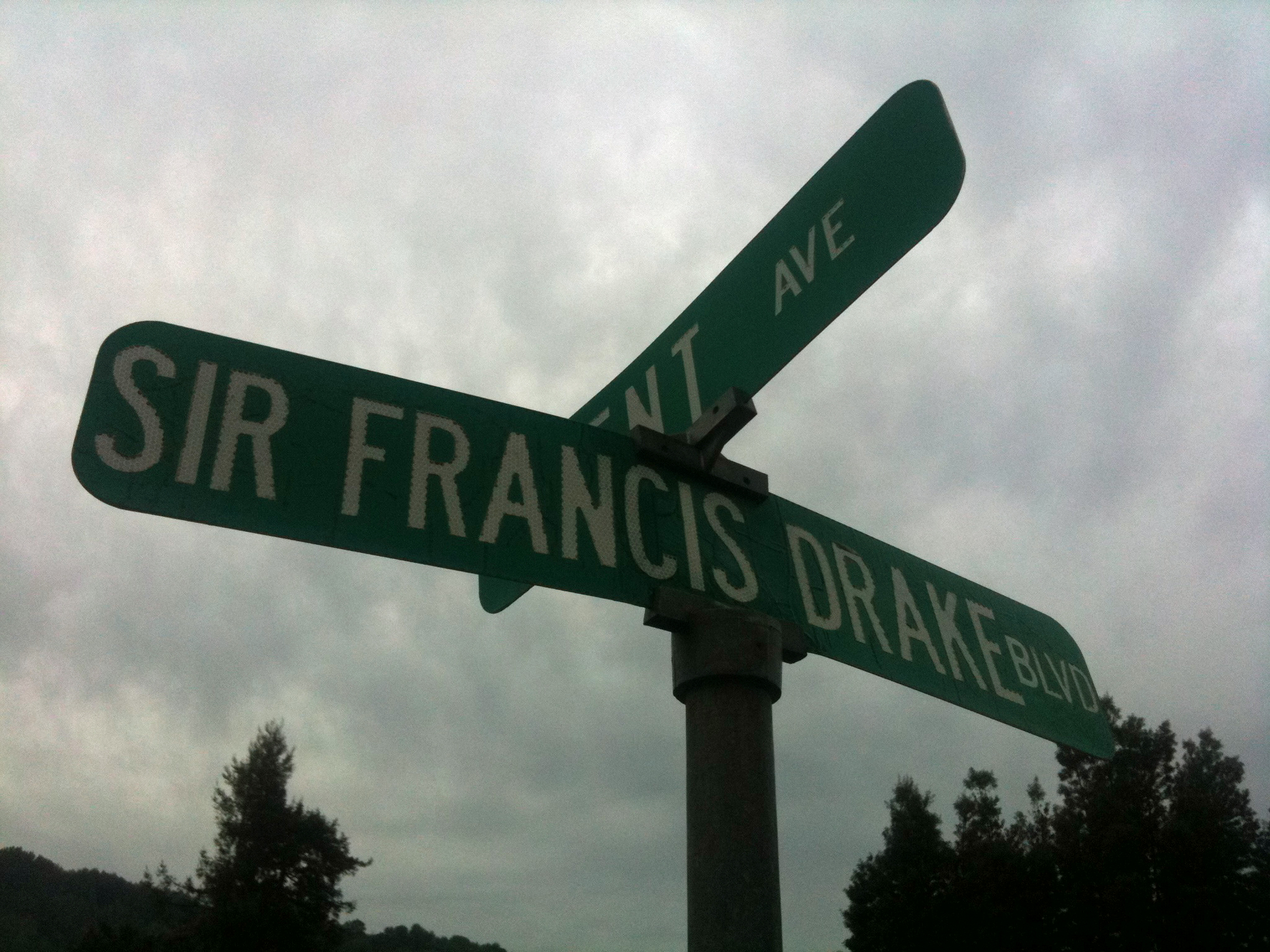 Sir Francis Drake Boulevard, California